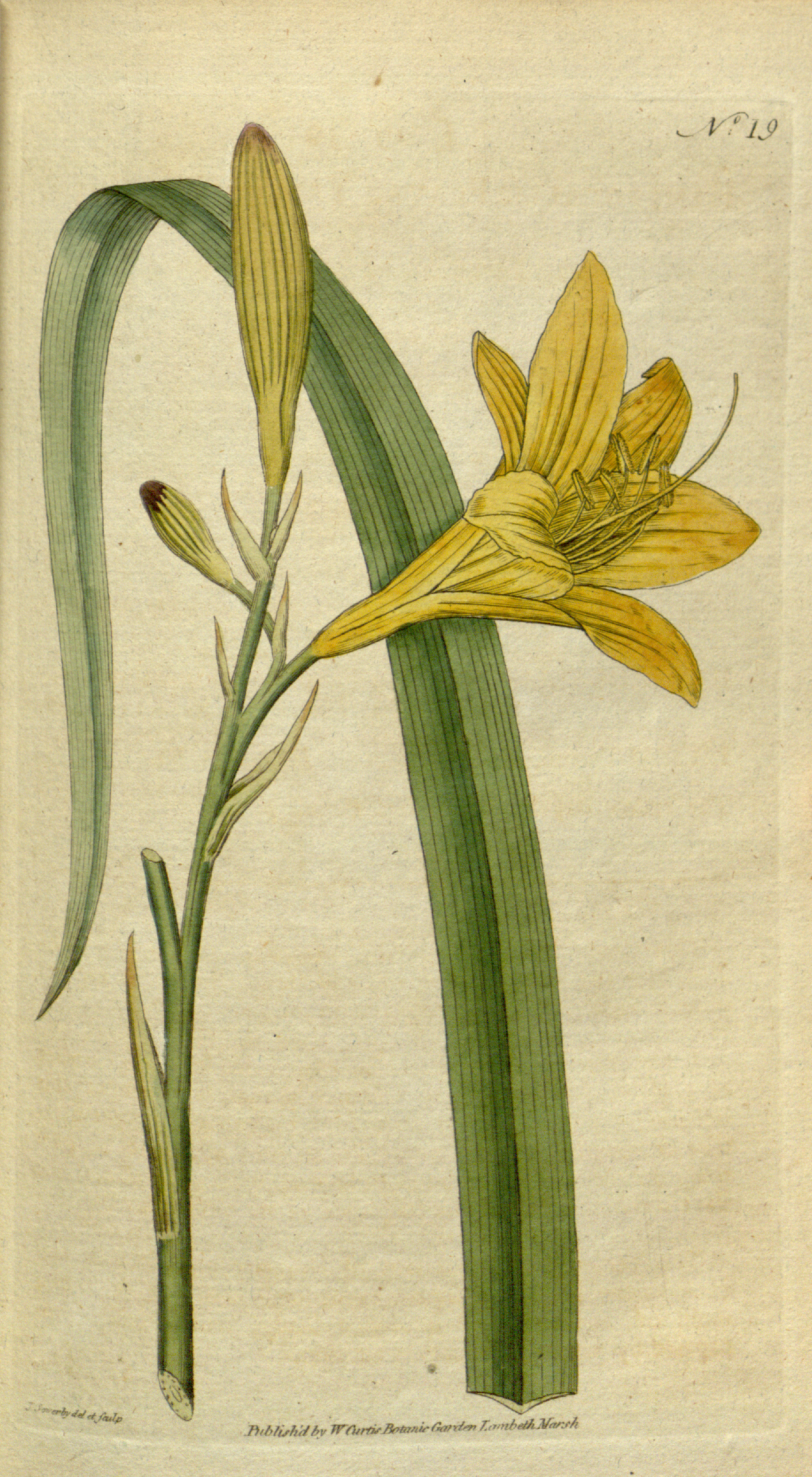 This is Plate 19 from The Botanical Magazine, Volume 1. Hemerocallis flava (Hemerocallis lilioasphodelus)